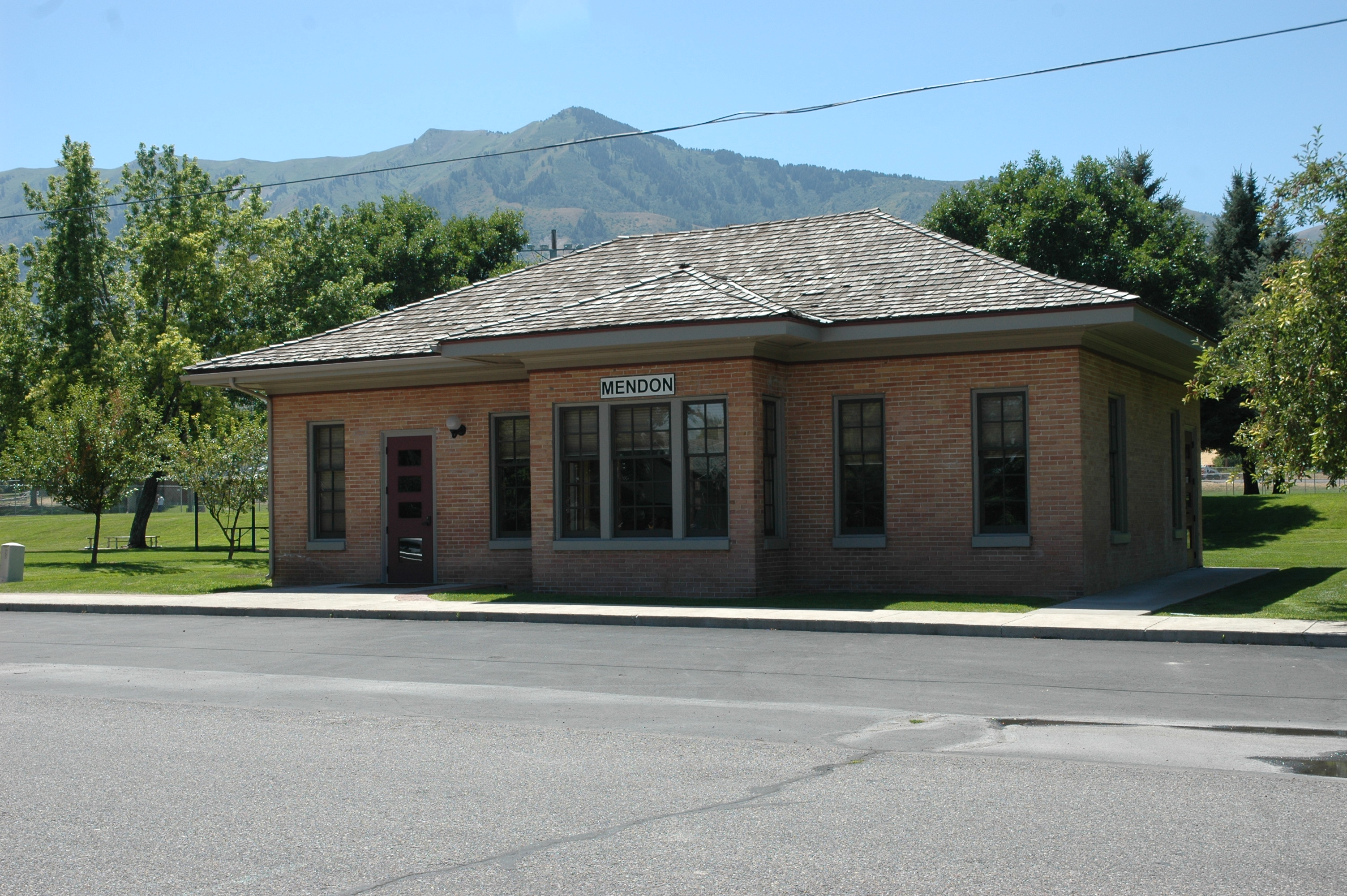 Mendon Station, a historic building in Mendon, Utah, United States.